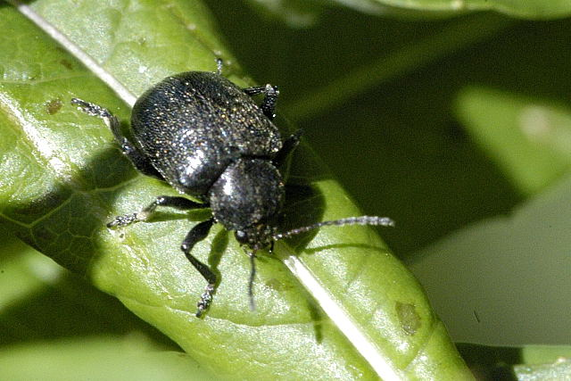 Picture taken in Commanster, Belgian High Ardennes . Species: Bromius obscurus